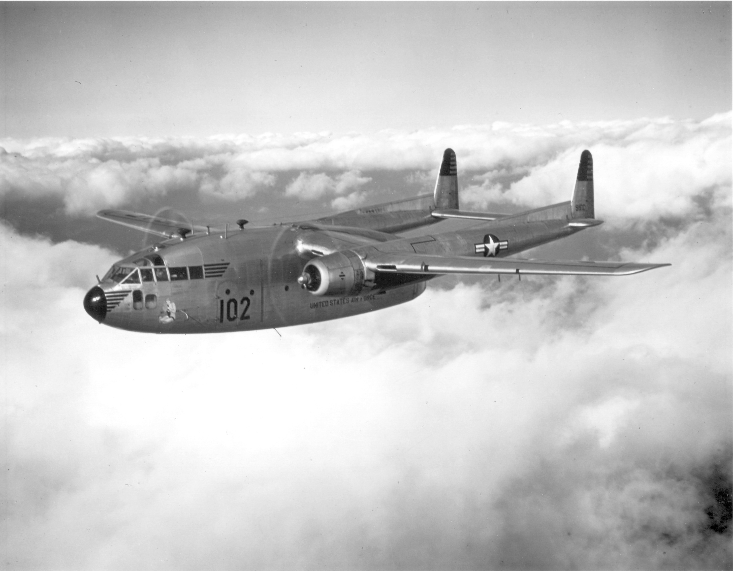 C-119 Flying Boxcars from the 314th Troop Carrier Group in Japan do not fly to Korea unless weather reports are good. They must be able to see the tiny drop zone for combat cargo on the peak before they can drop. In radio contact with the "men on mountains," the pilots circle hoping for a break in clouds and drop on lower slopes. The planes have had to return to Japan as many as three times without dropping cargo, but the pilots are persistent, and eventually drop successfully.